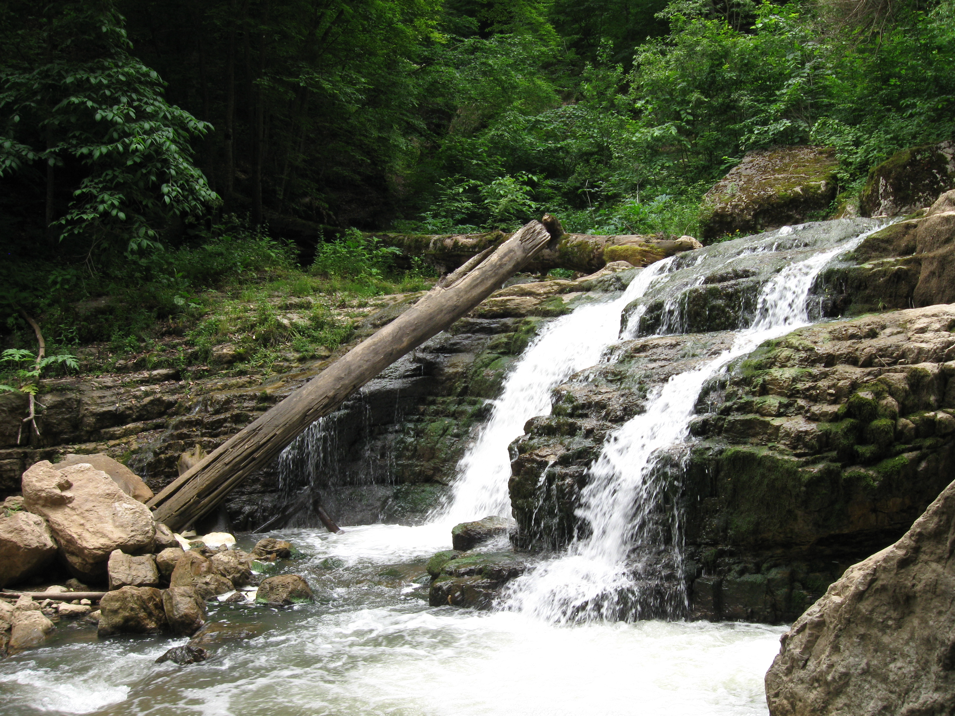 Waterfall Lastiver ( river Khachaghbyur), in the Provence Lori, Armenia